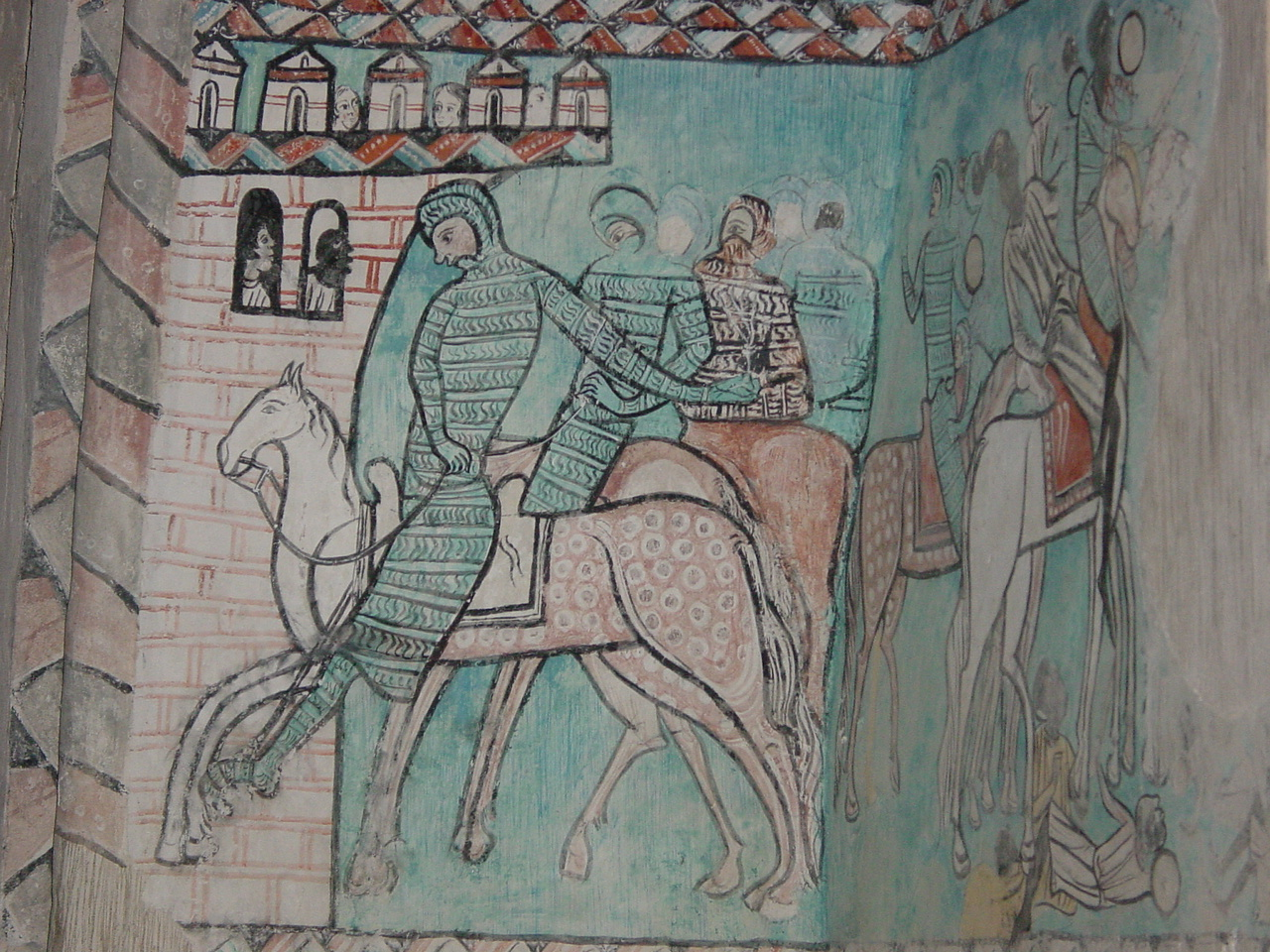 Church of the ciscertian monastery of Santa María de Valbuena in Valbuena de Duero (Valladolid). Detail of the gothic mural paint kept in "chapel of the Treasure".